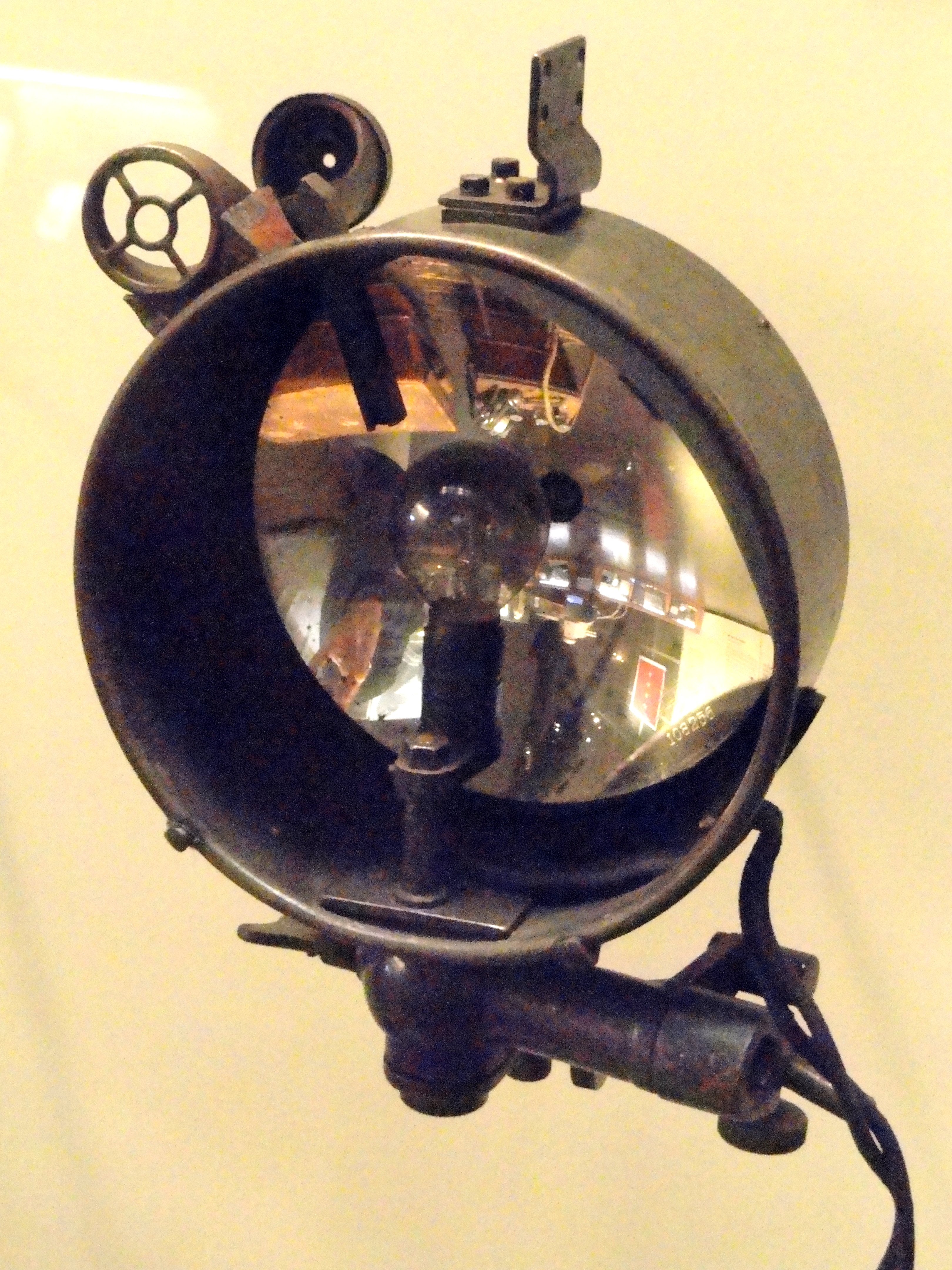 Exhibit in the National World War I Museum at the Liberty Memorial, 100 W. 26th Street, Kansas City, Missouri, USA.